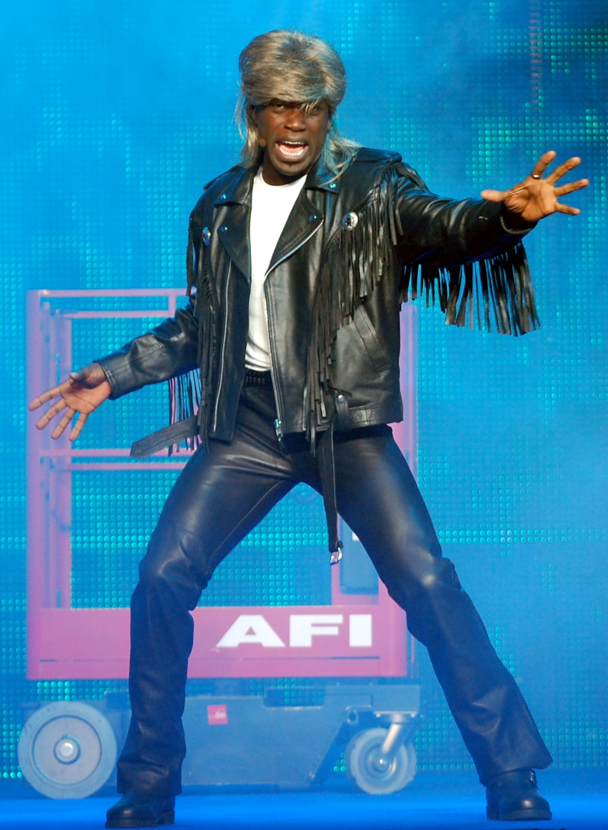 crop of Ortis Deley from image of Gadget Show Live 2011. Levels adjusted.